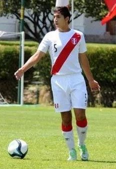 Kelvin